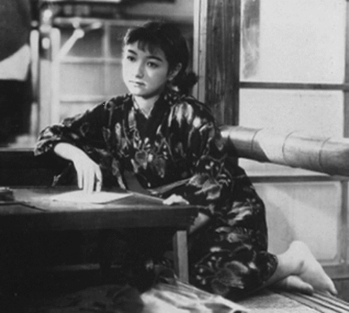 Hideko Takamine in 1938 Japanese movie Tsuzurikata kyoushitsu(Composition classroom).